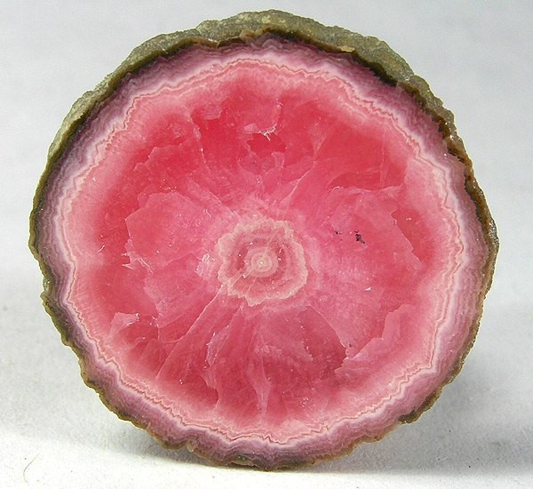 Rhodochrosite Locality: Capillitas Mine, Andalgalá, Catamarca, Argentina (Locality at ) Size: 3.4 x 3.4 x 0.3 cm. A pretty slice taken from a stalactite of rhodochrosite, deep pink in the middle and ringed by a band of light pink, showing the circles of concentric deposition that formed it. Polished on both sides.